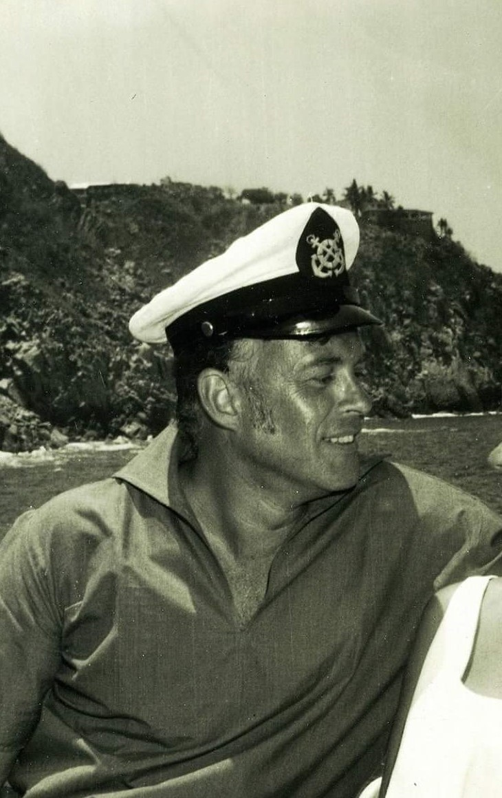 Picture of Frank Bresee in the 70's